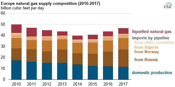 In 2017, natural gas imports from Russia provided 35% of the total EU-28 supply and Norway provided 24%. October 25, 2018